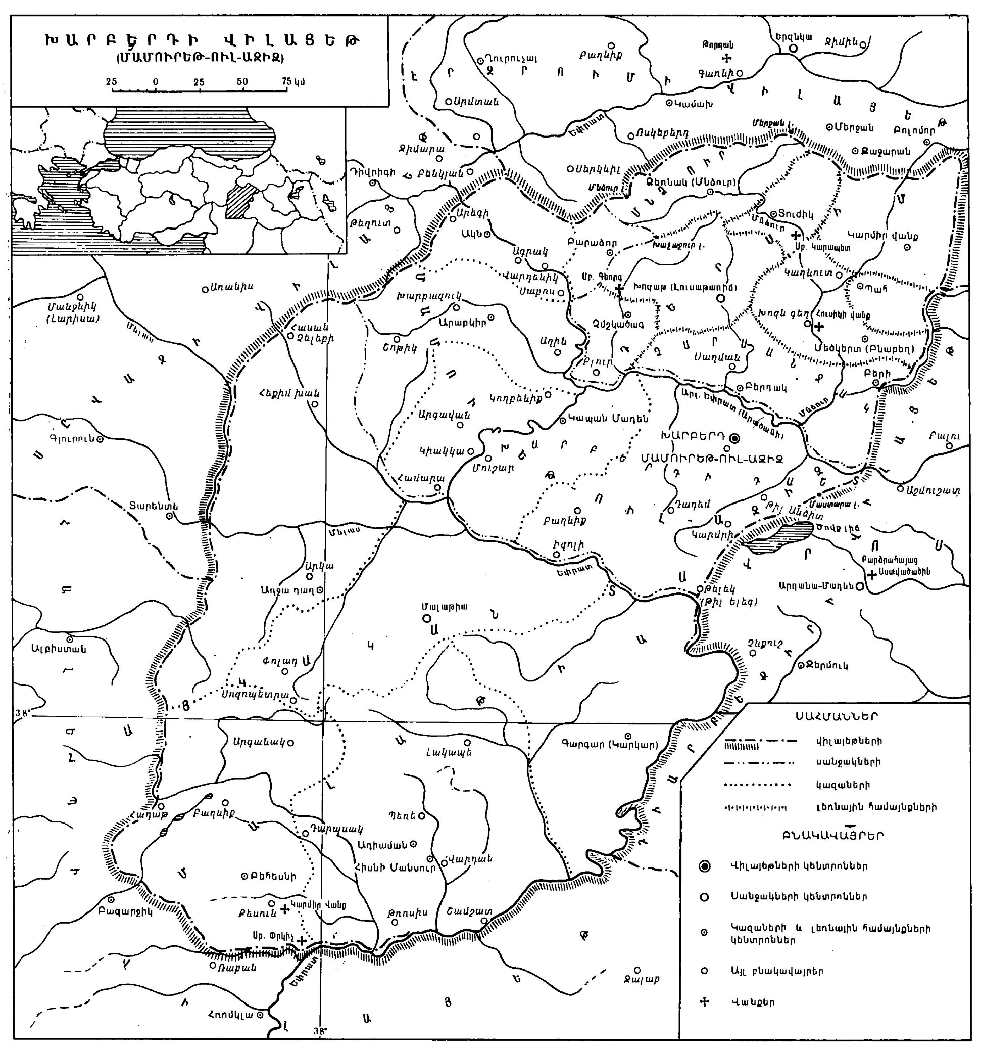 This file got from "Soviet Armenian Encyclopedia" with "Creative Commons BY-SA 3.0" License.